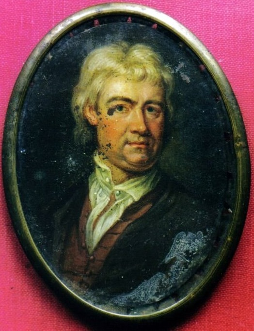 Francis Bird miniature, oil on copper, artist unknown.